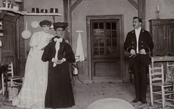 Reprofotograferat från påsiktsbild